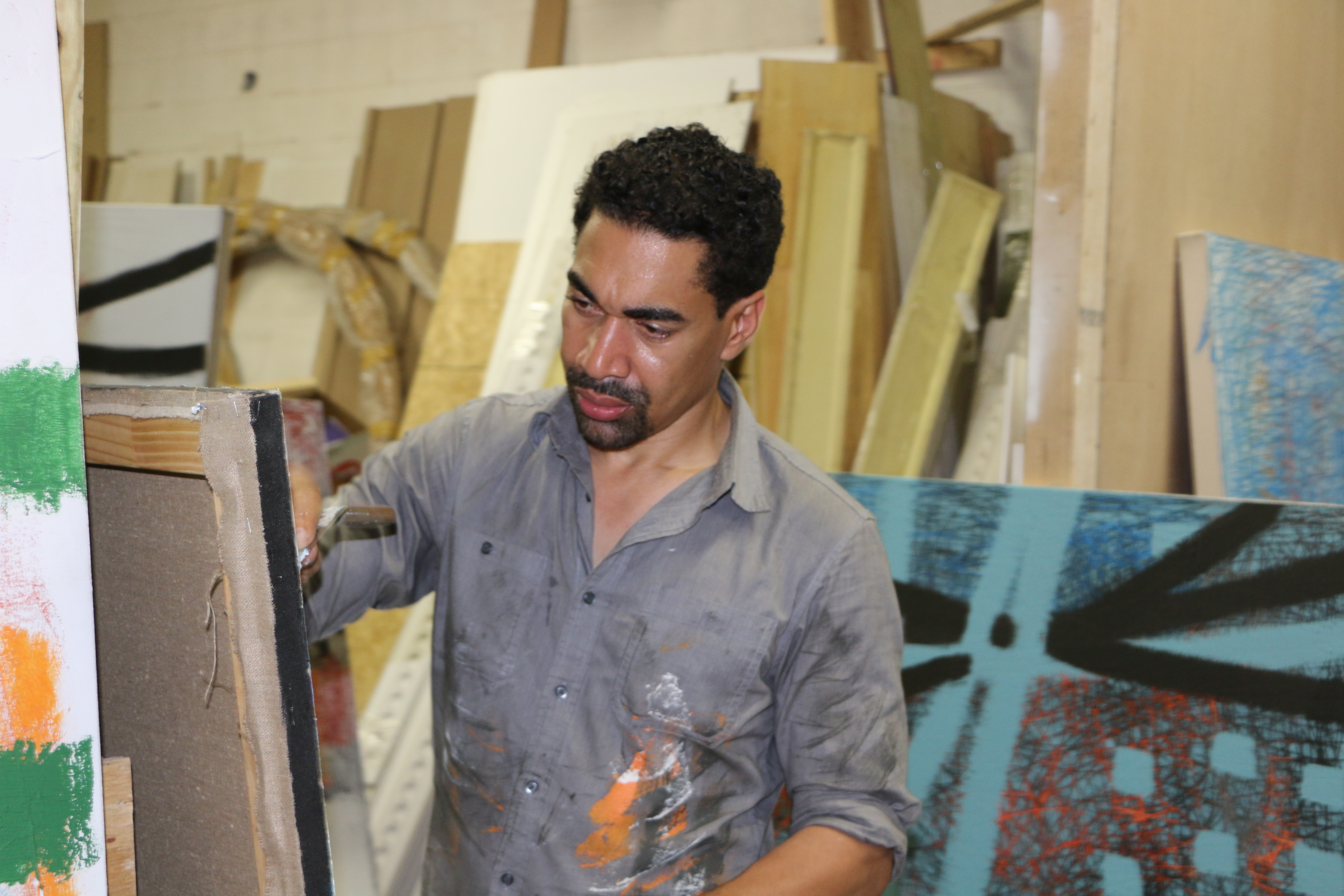 Abreu en 2016